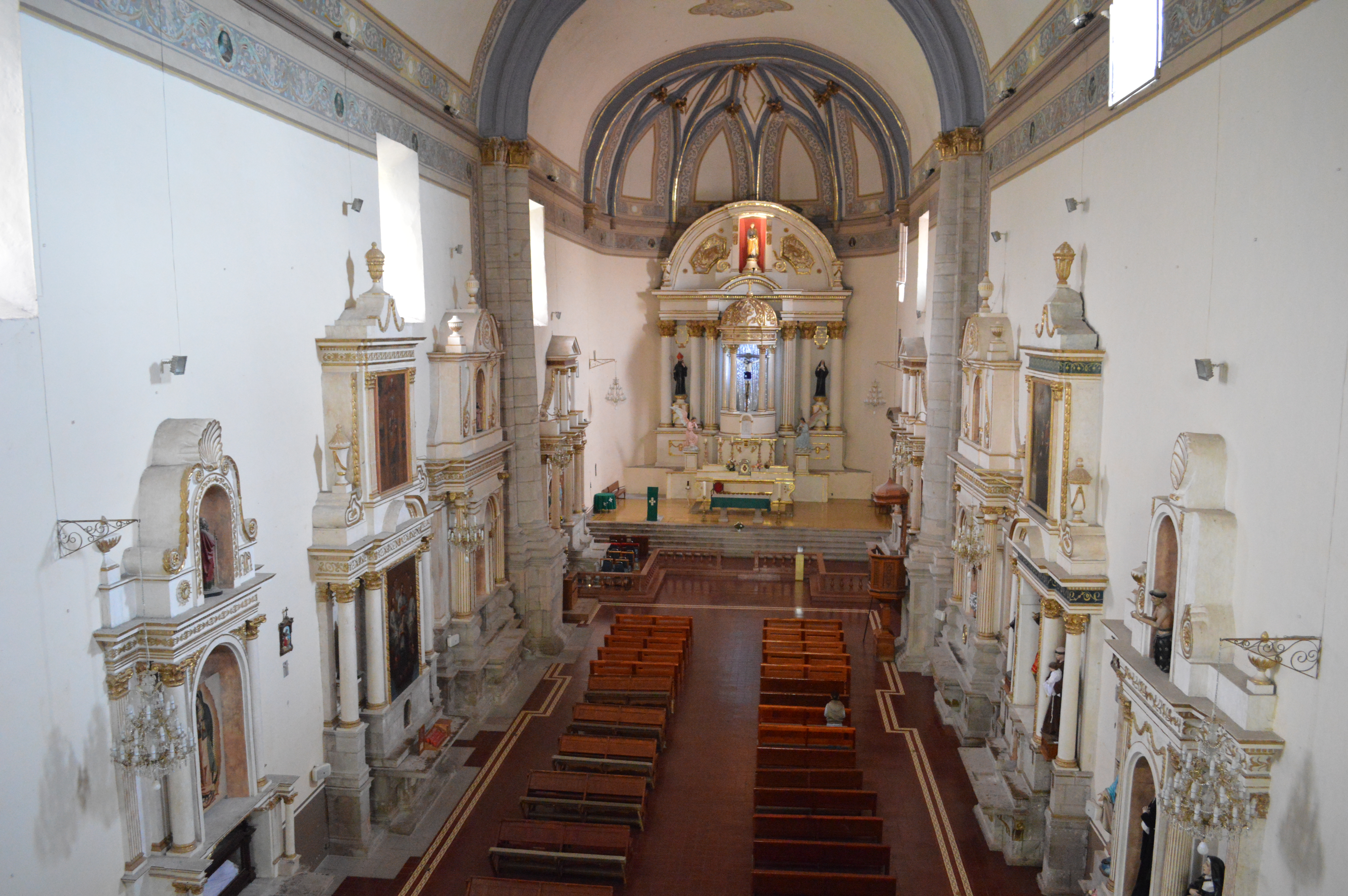 Nave of the church of Santa Maria Magdalena as seen from the choir in Cuitzeo, Michoacan